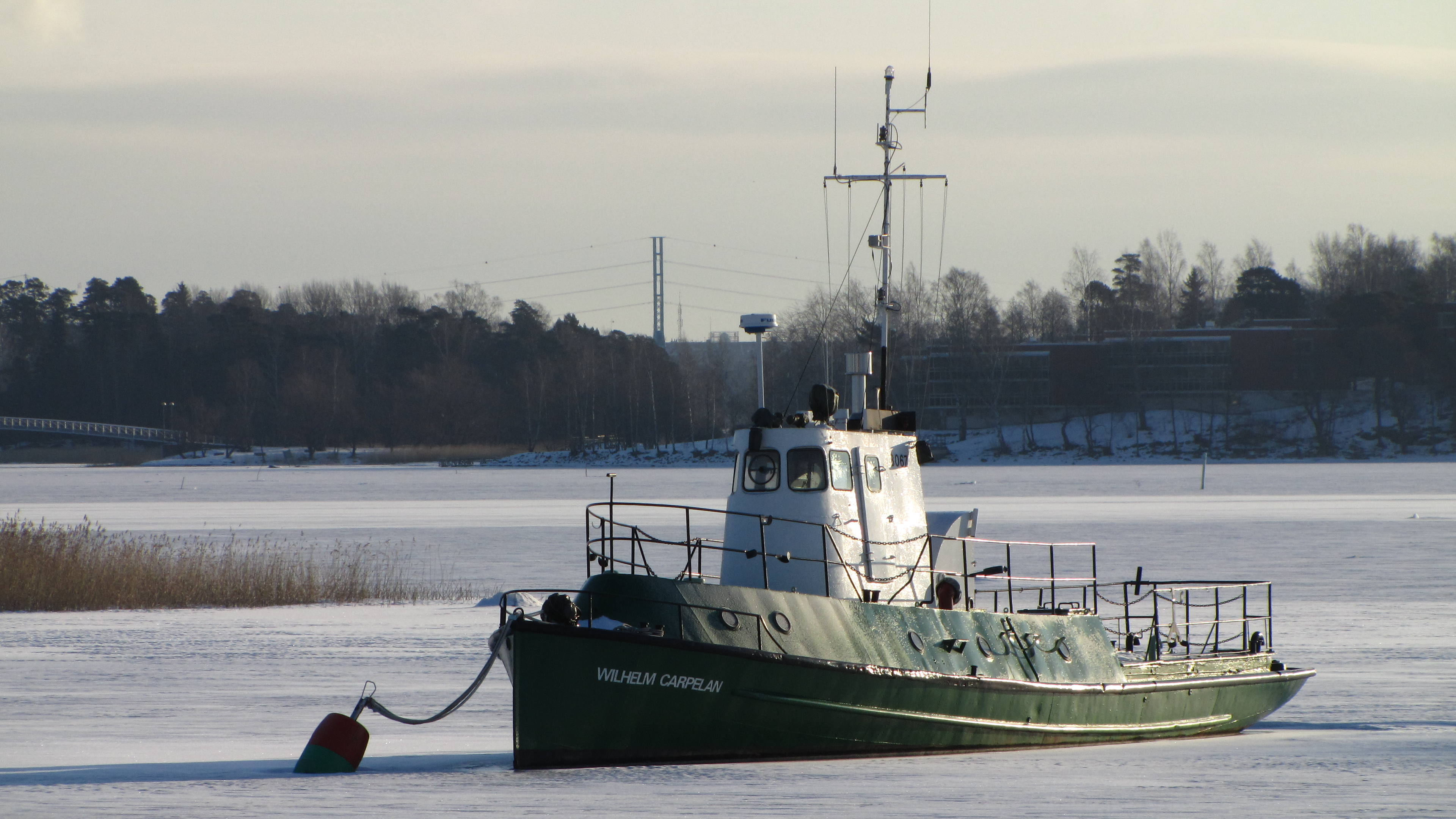 M/S Wilhelm Carpelan, Espoo Keilaniemi bay, Feb 2009 (ex.Sharpnell) Former military vessel build 1915 by Kone ja Silta in Helsinki,Finland